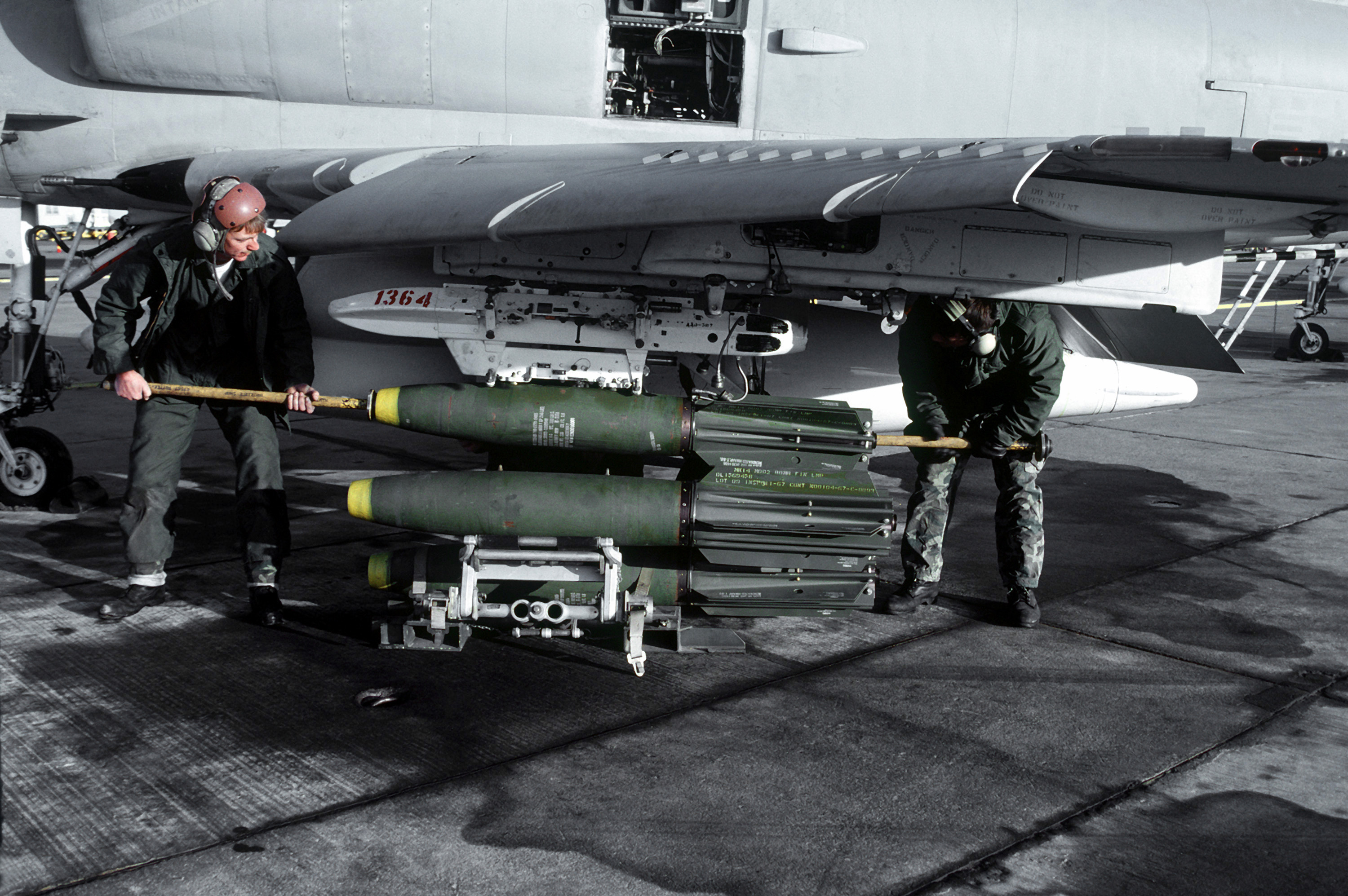 U.S. Marine Corps crewmen upload three Mark 81 general purpose high explosive bombs aboard a Douglas A-4F Skyhawk aircraft from Marine Attack Squadron 133 (VMA-133) at Naval Air Station Fallon, Nevada (USA), on 1 December 1982.